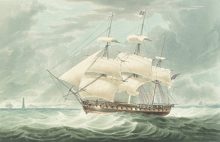 H.M.S. Winchester Print H.M.S. Winchester